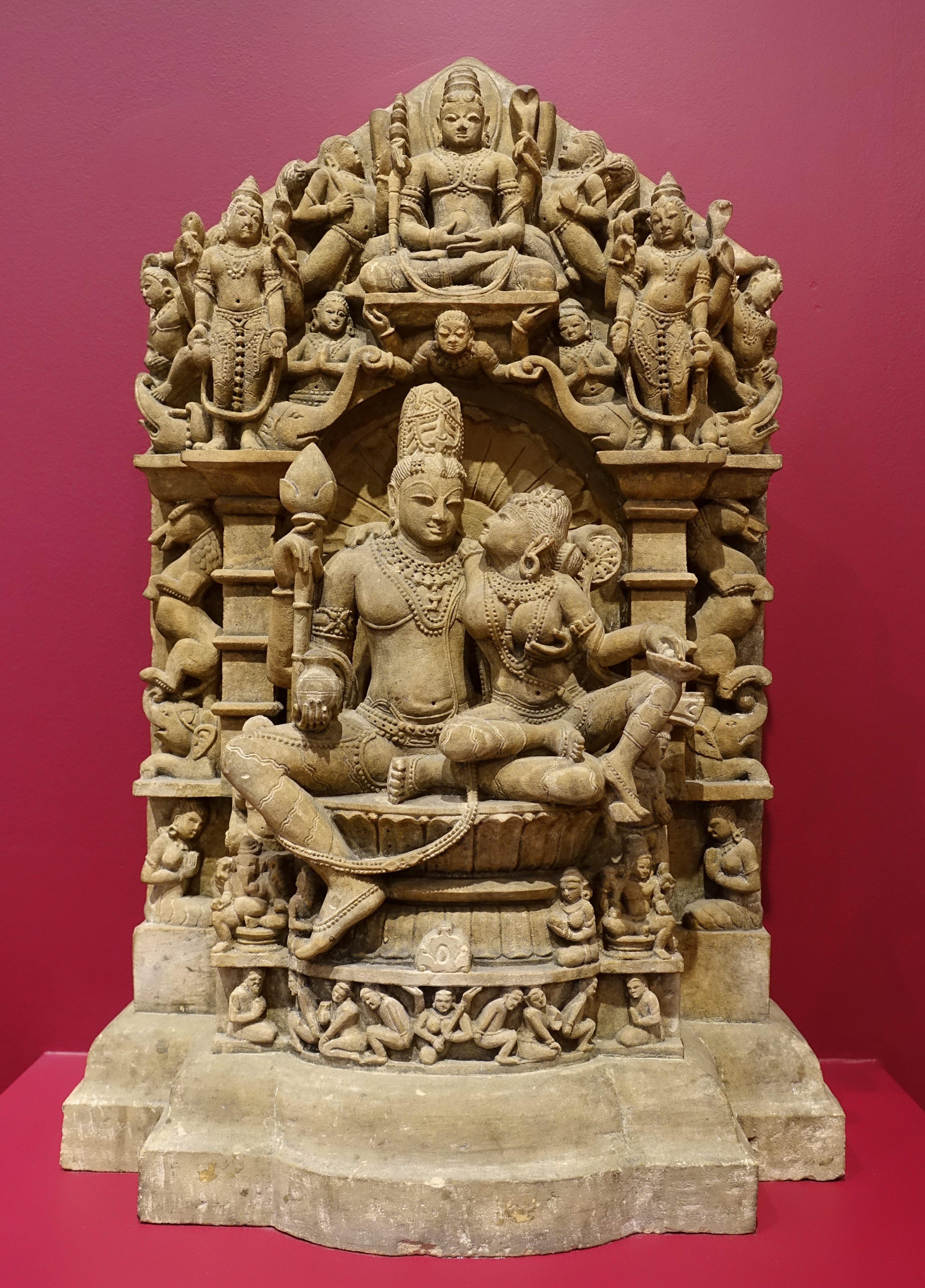 Sculpture from India in the Dallas Museum of Art, Texas, USA. Uma Maheshvara, central India, probably late 1000s to 1100s AD, buff sandstone.